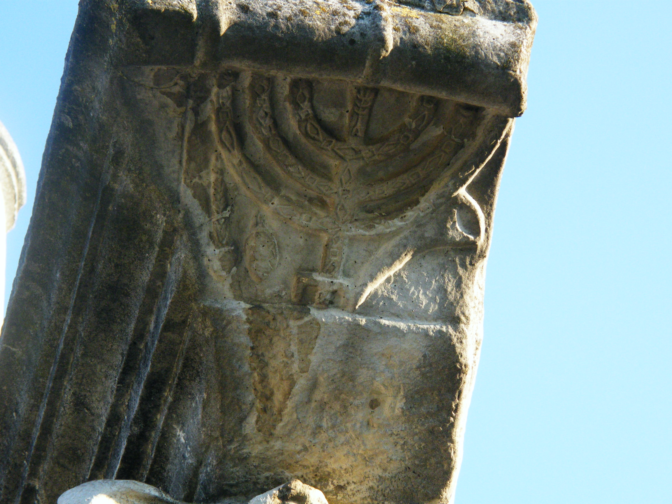 Ostia Antica Synagogue menora column